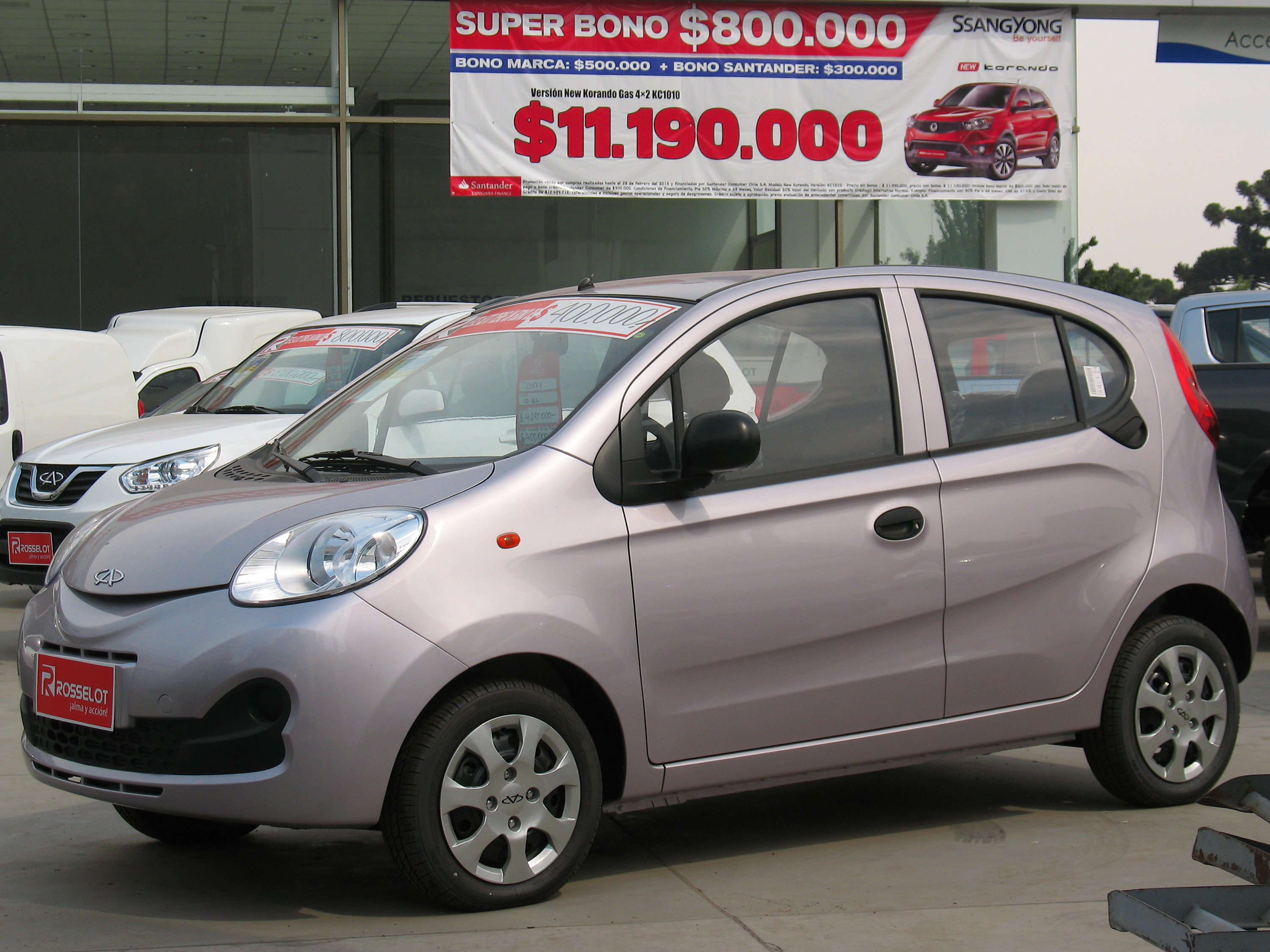 Chery iQ 1.0 GL 2015